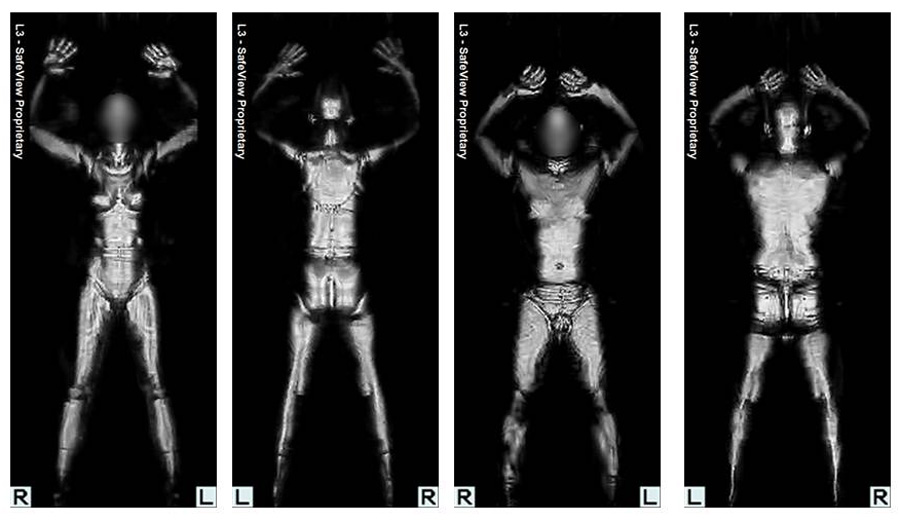 Millimeter wave technology. Gen 2 scanner manufactured by Brijot of Lake Mary, Fla.